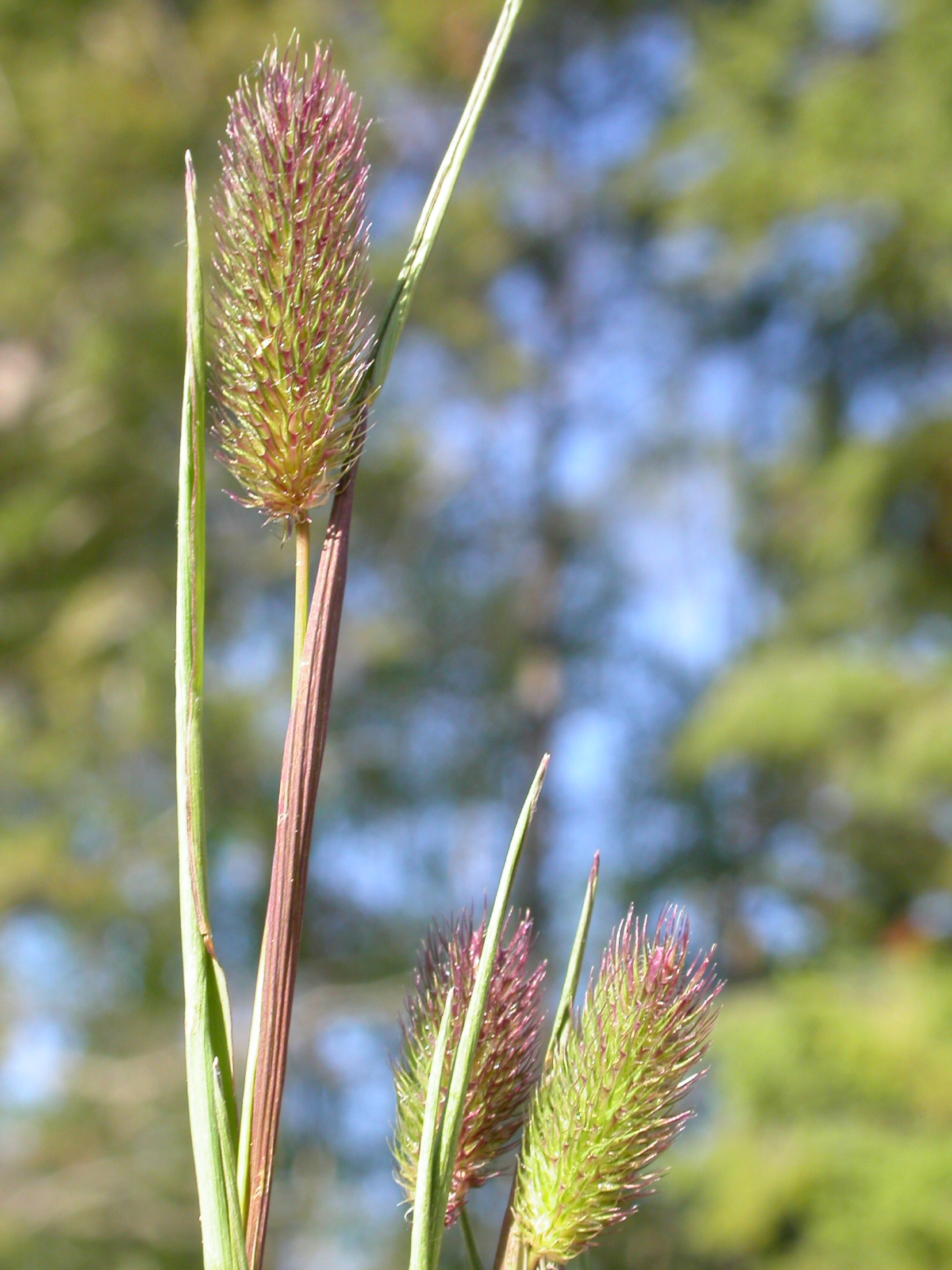 The inflated leaf sheath that subtends the inflorescence is diagnostic of Phleum alpinum.